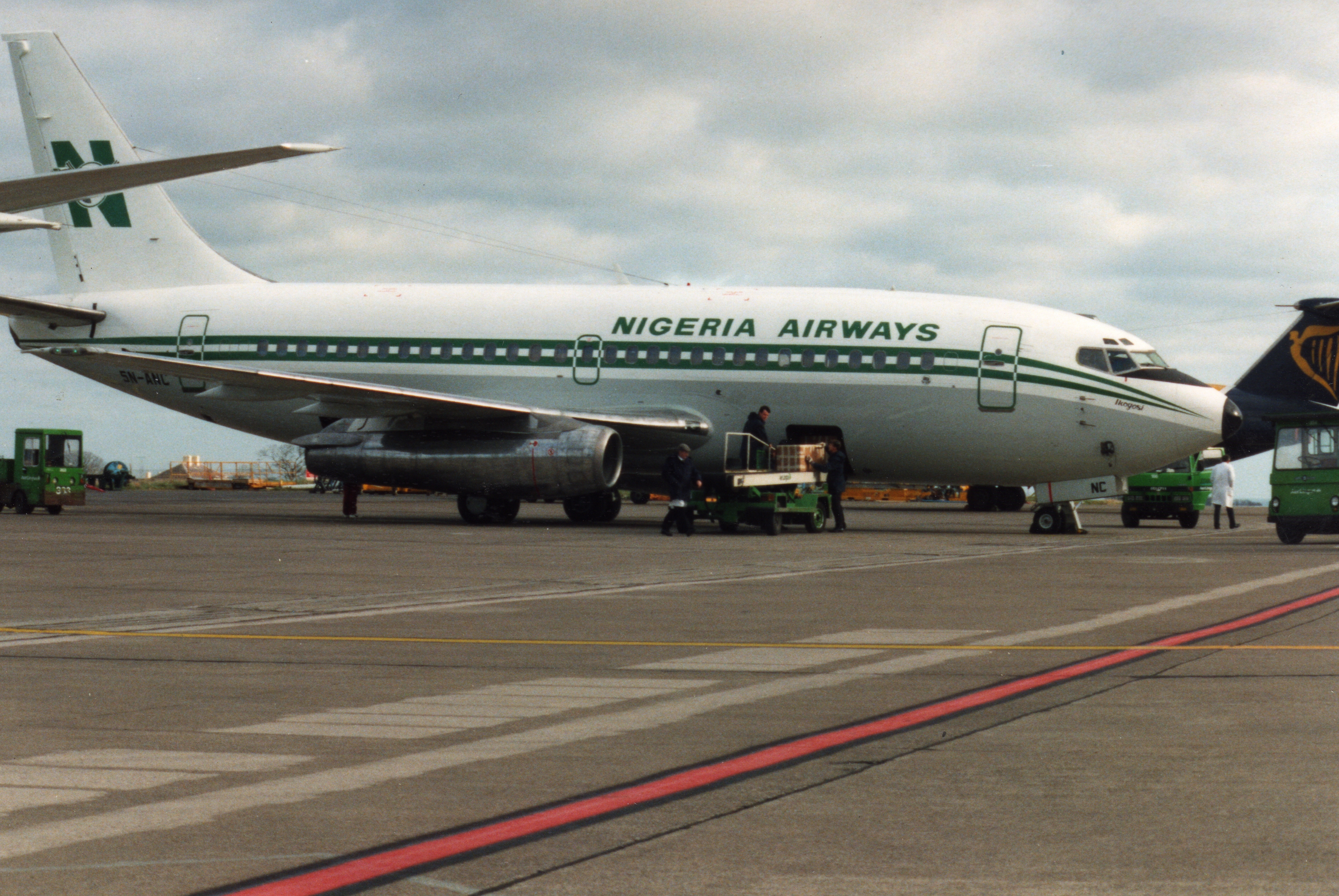 Nigeria Airways (5N-ANC) Boeing 737-200 aircraft, Dublin Airport, Dublin, Republic of Ireland, February 1993